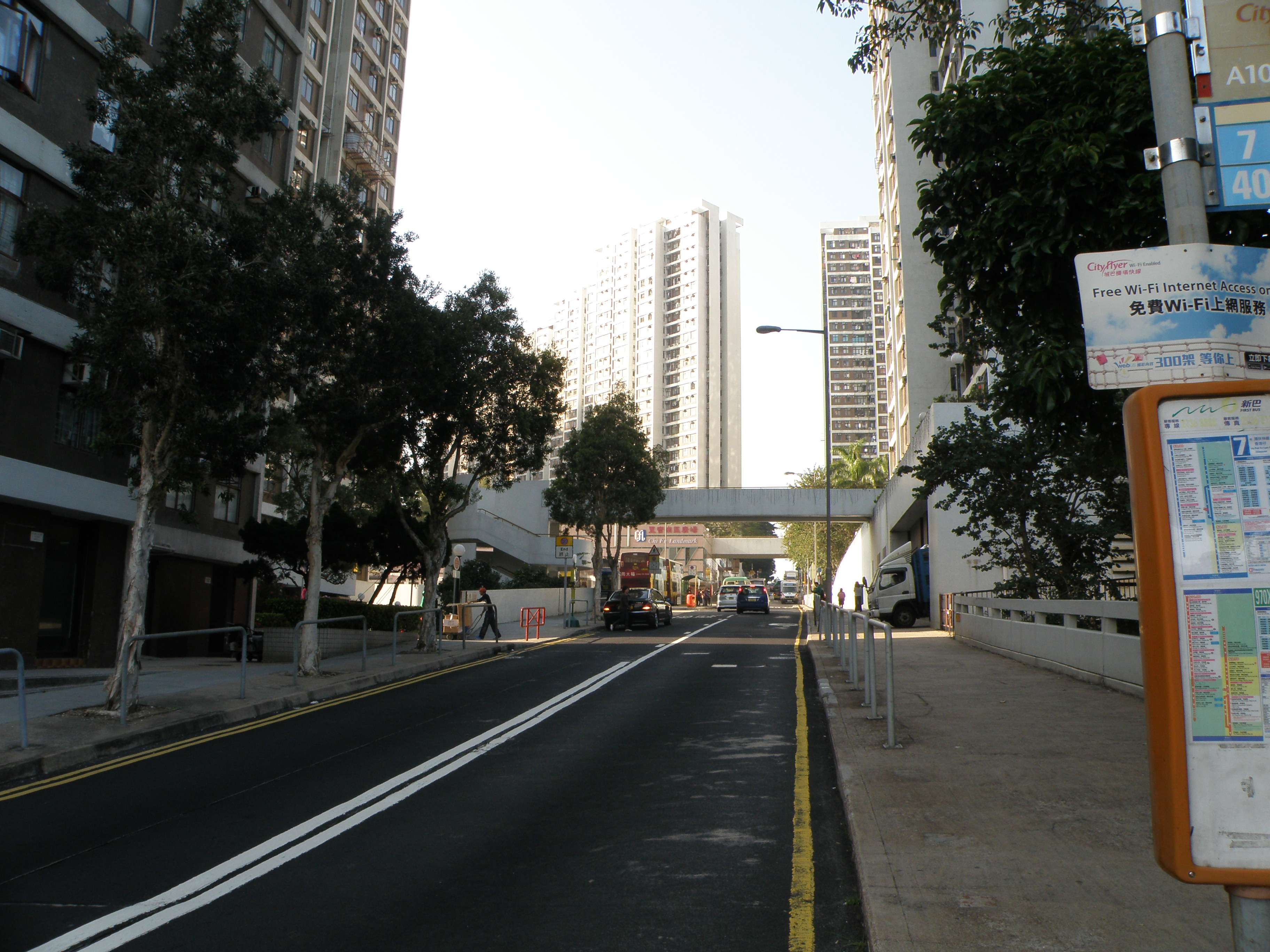 Chi Fu Road in Pok Fu Lam, Hong Kong.